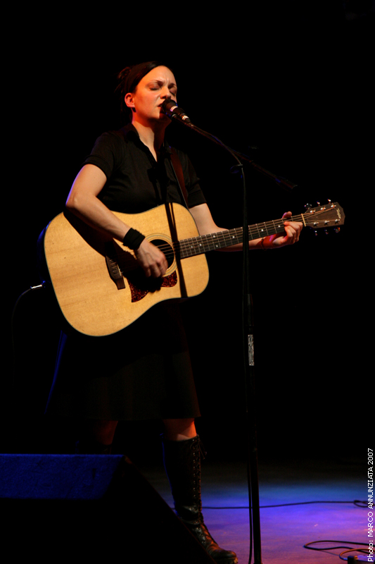 nina nastasia + jim white, viper, firenze, italy 25/11/2007